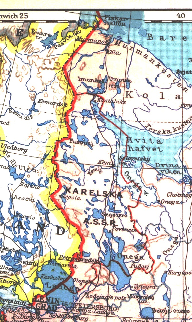 Karelian ASSR